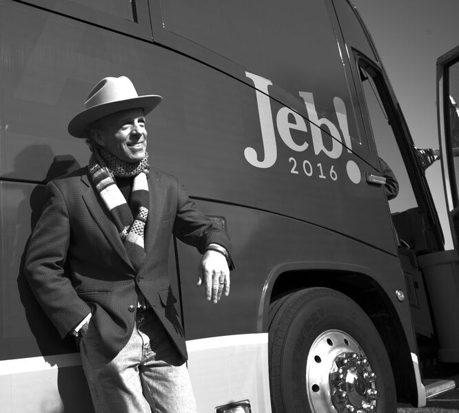 Mark McKinnon in front of a Jeb! 2016 bus